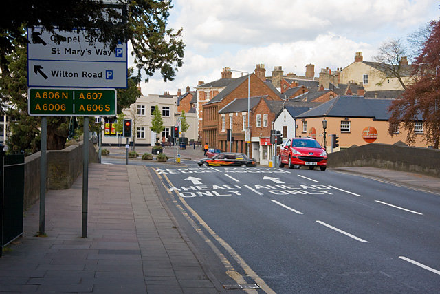 Bridge Over the Eye Looking along the A607 Leicester Road as it crosses the Eye on its way into central Melton Mowbray. A red Peugeot heads out of town. In the background a Ford Granada in a rather garish colourscheme crosses the junction to take the A606 Wilton Road.